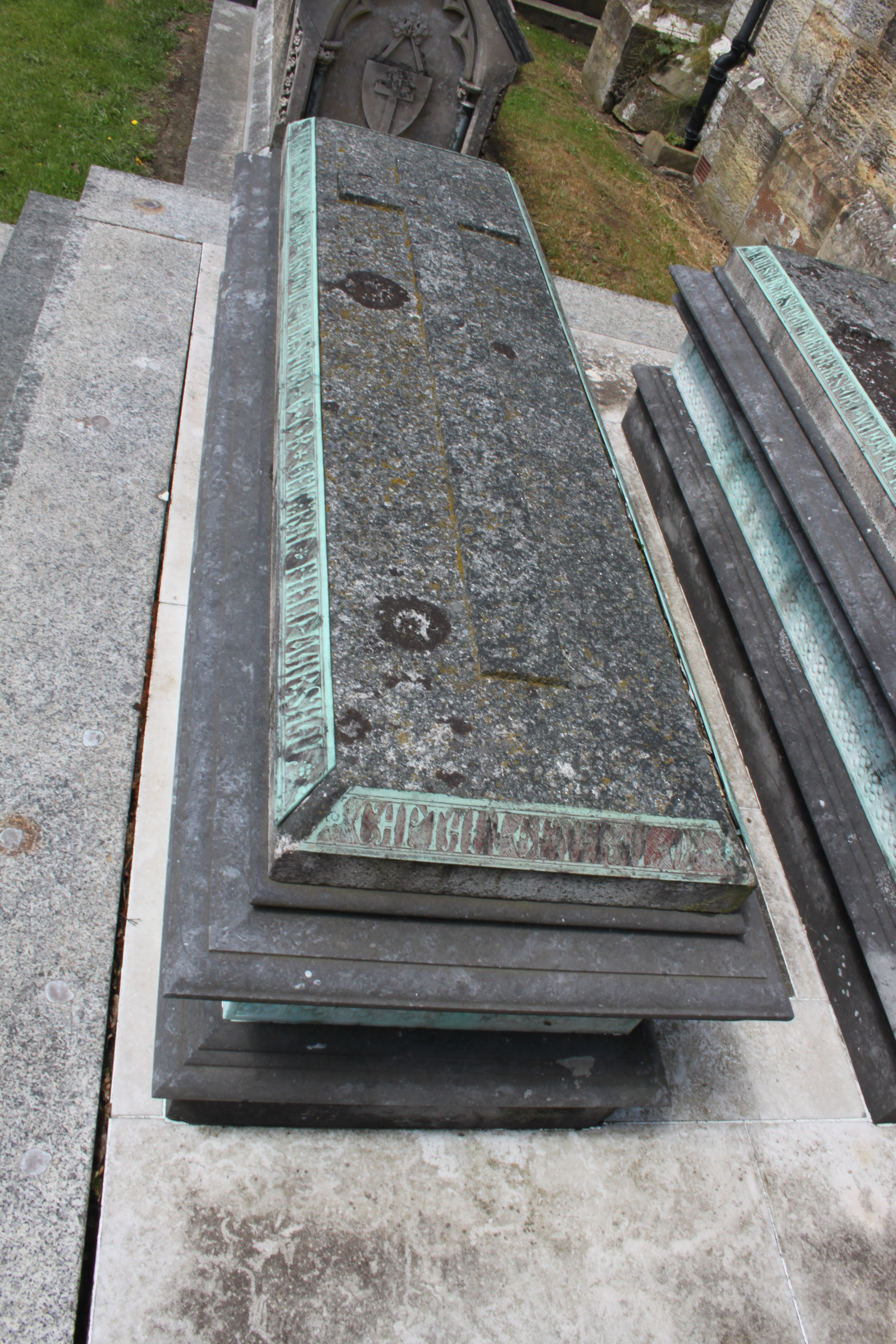 Inscription reads "Here lieth William Carr Beresford Viscount Beresford GCB General Field Marshal Captain General of England Portugal Spain who deceased 8 Jan AD 1854 aged 86 Lord have mercy upon me"